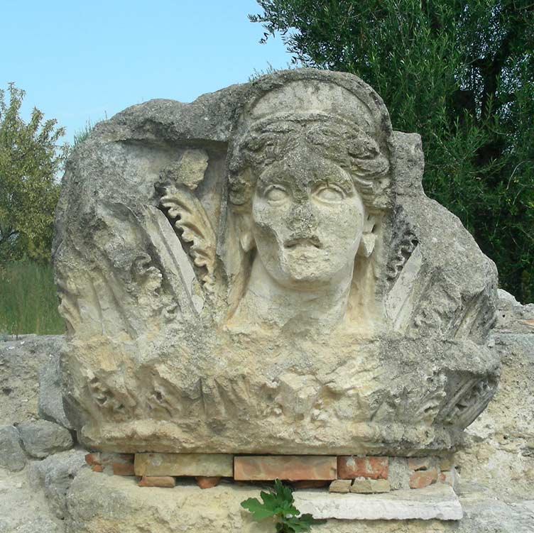 Italy, Canosa di Puglia, St. Leucio, corinthian-italic capital with figures